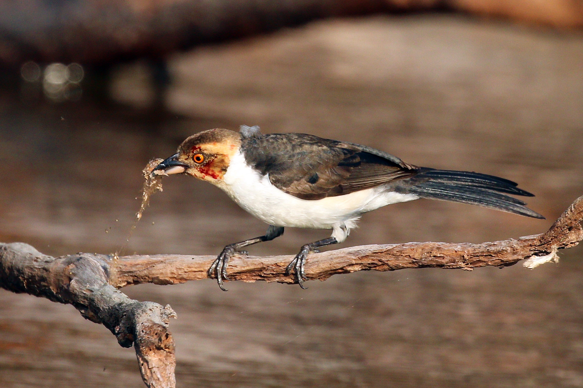 Red-capped cardinal (Paroaria gularis) juvenile, Cristalino River, Southern Amazon, Brazil